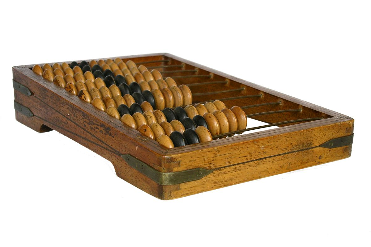 Russian abacus